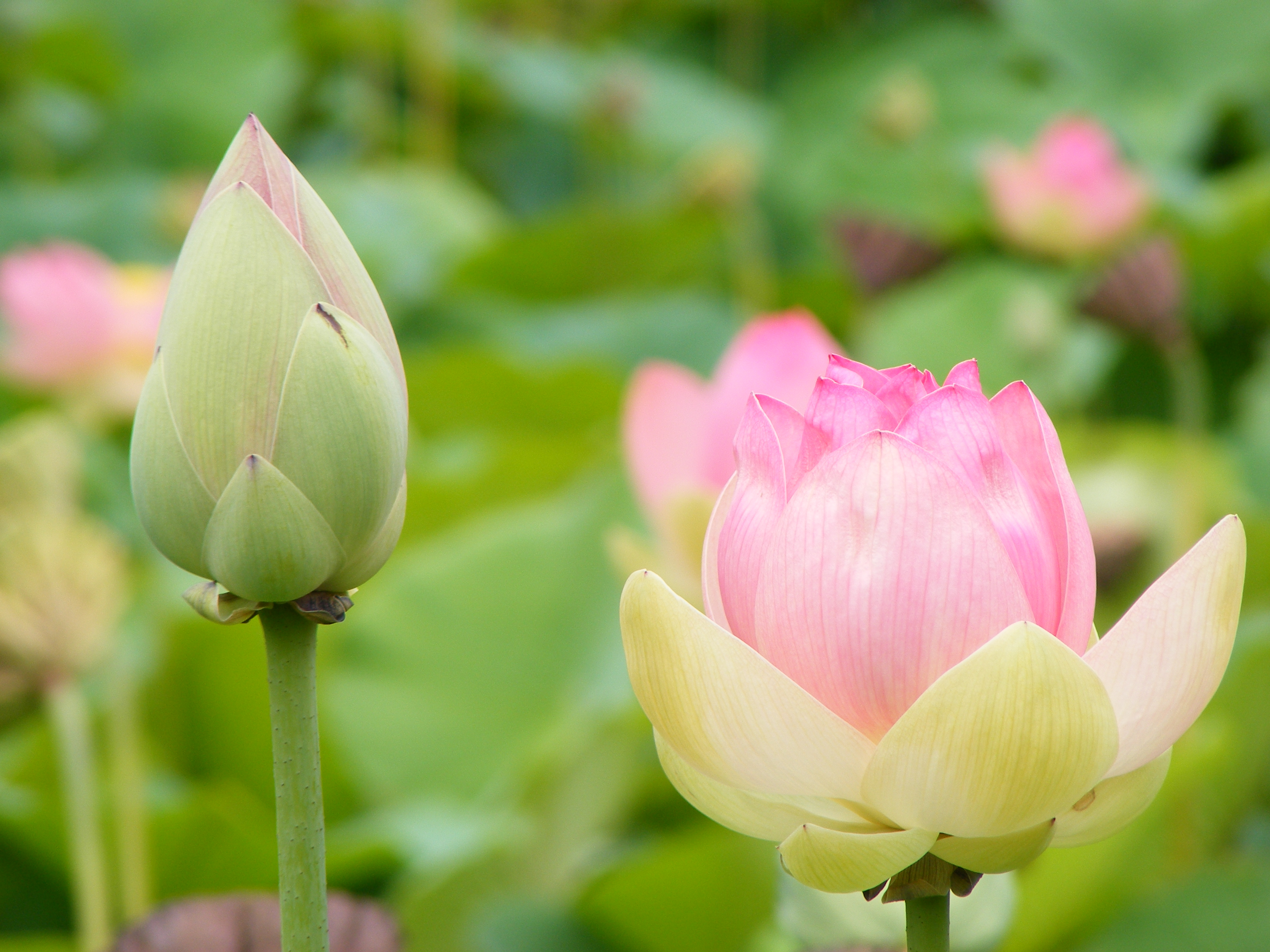 open and closed flower of Nelumbo nucifera at Botanic Garden, Adelaide, South Australia